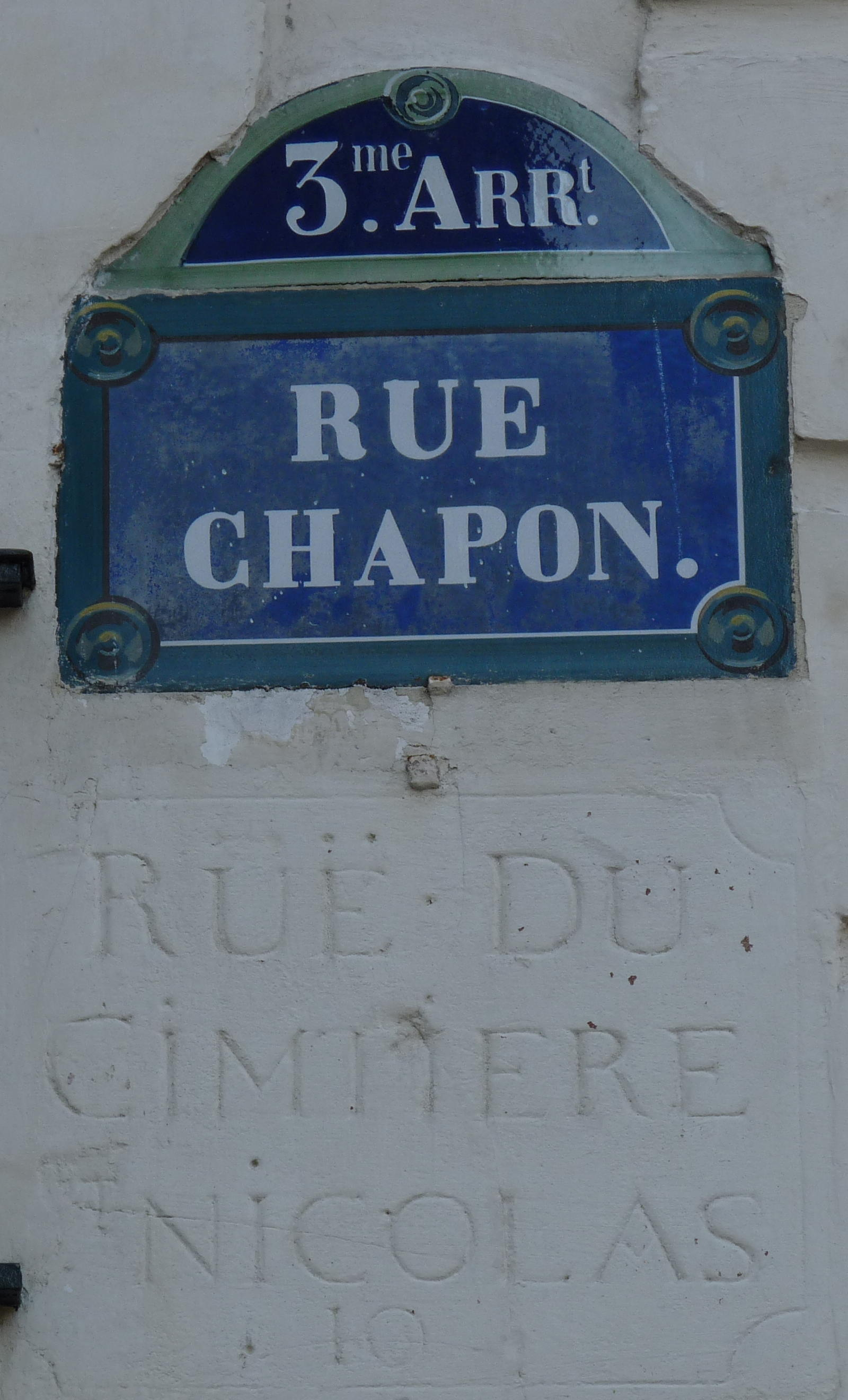 old street sign Rue du Cimetière St. Nicolas number 10, today Rue Chapon